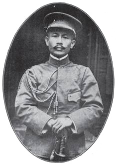 Huang Shilong